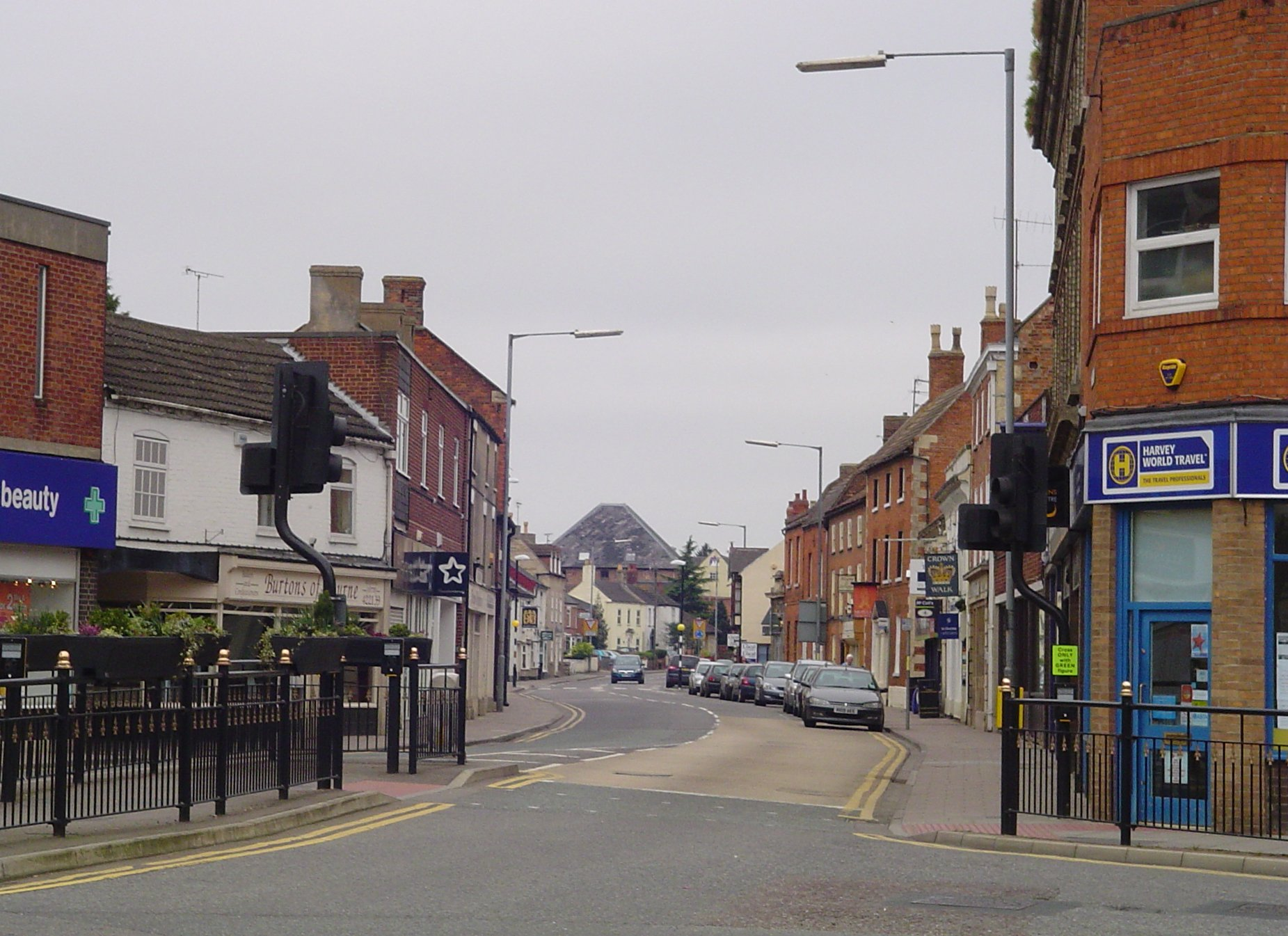 Bourne West Street